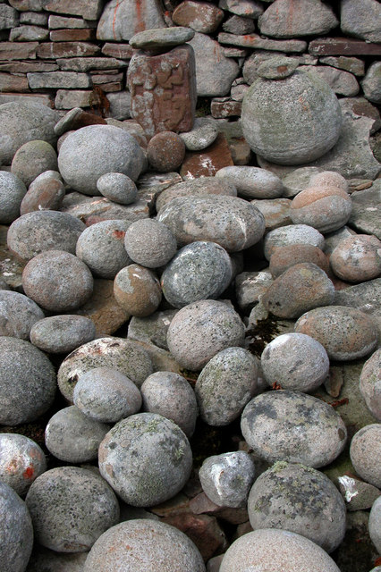 Inismurray, Cursing Stones The altar covered with partially carved stones used to curse one's enemies.